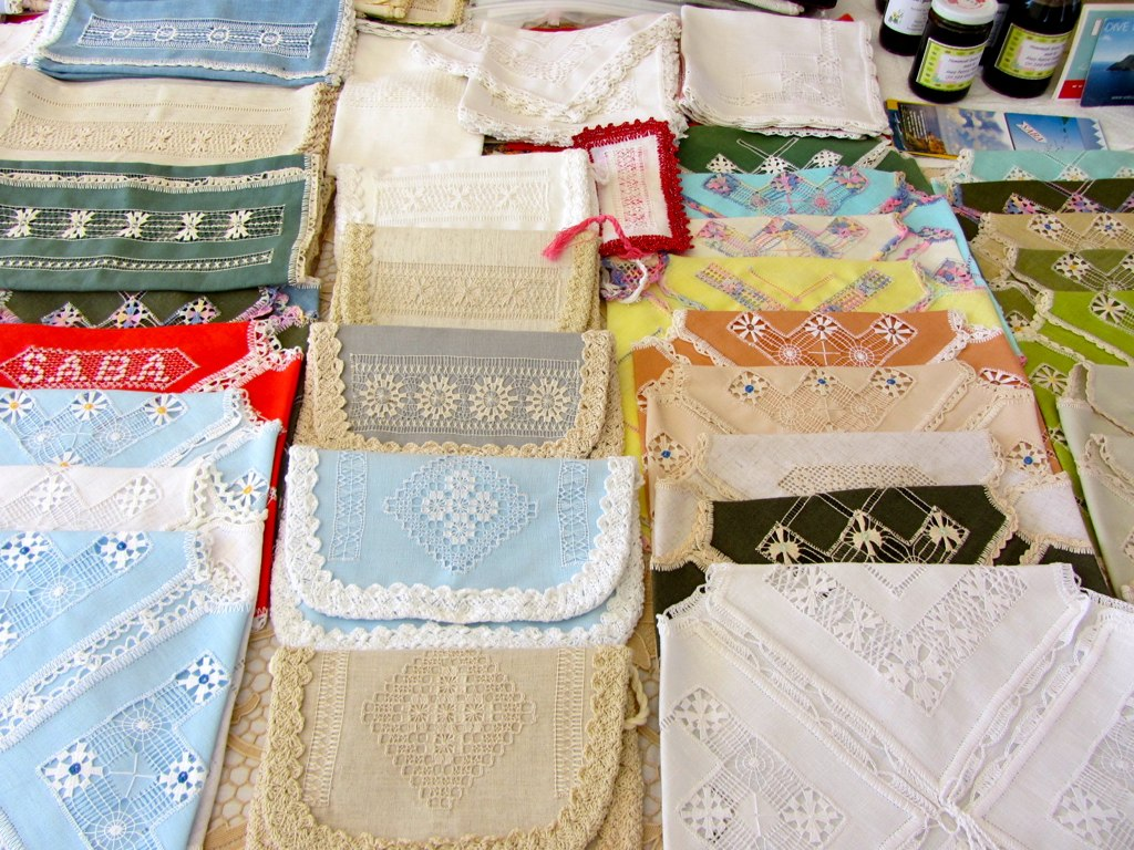 Famous Saba Lace Work